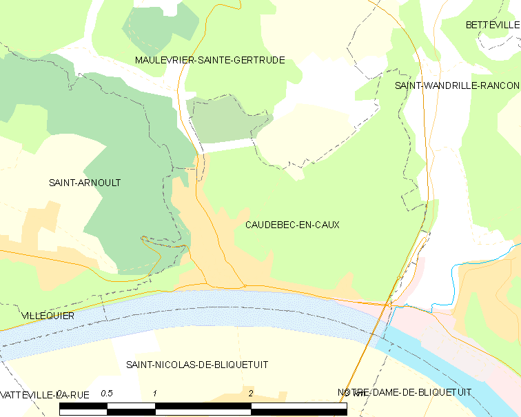 Map of French municipality Caudebec-en-Caux